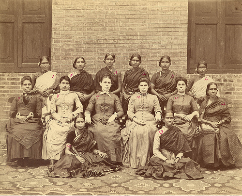 public domian. Picture taken circa 1880. Authur died more than 100 years ago.